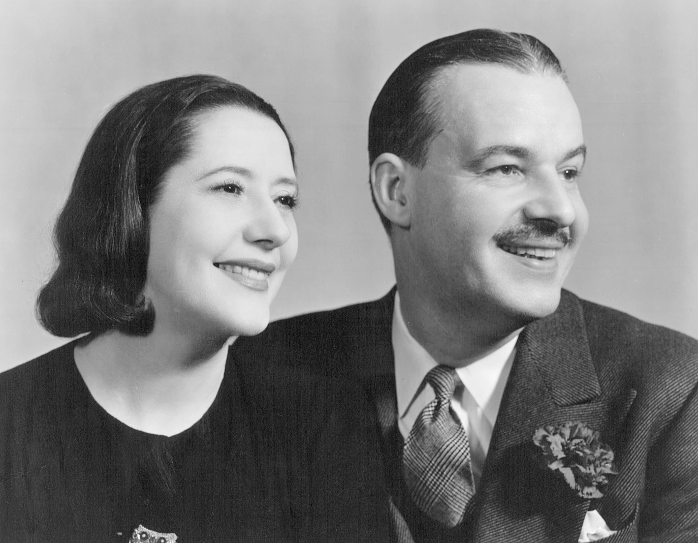 Photo of Alfred Lunt and Lynne Fontanne.